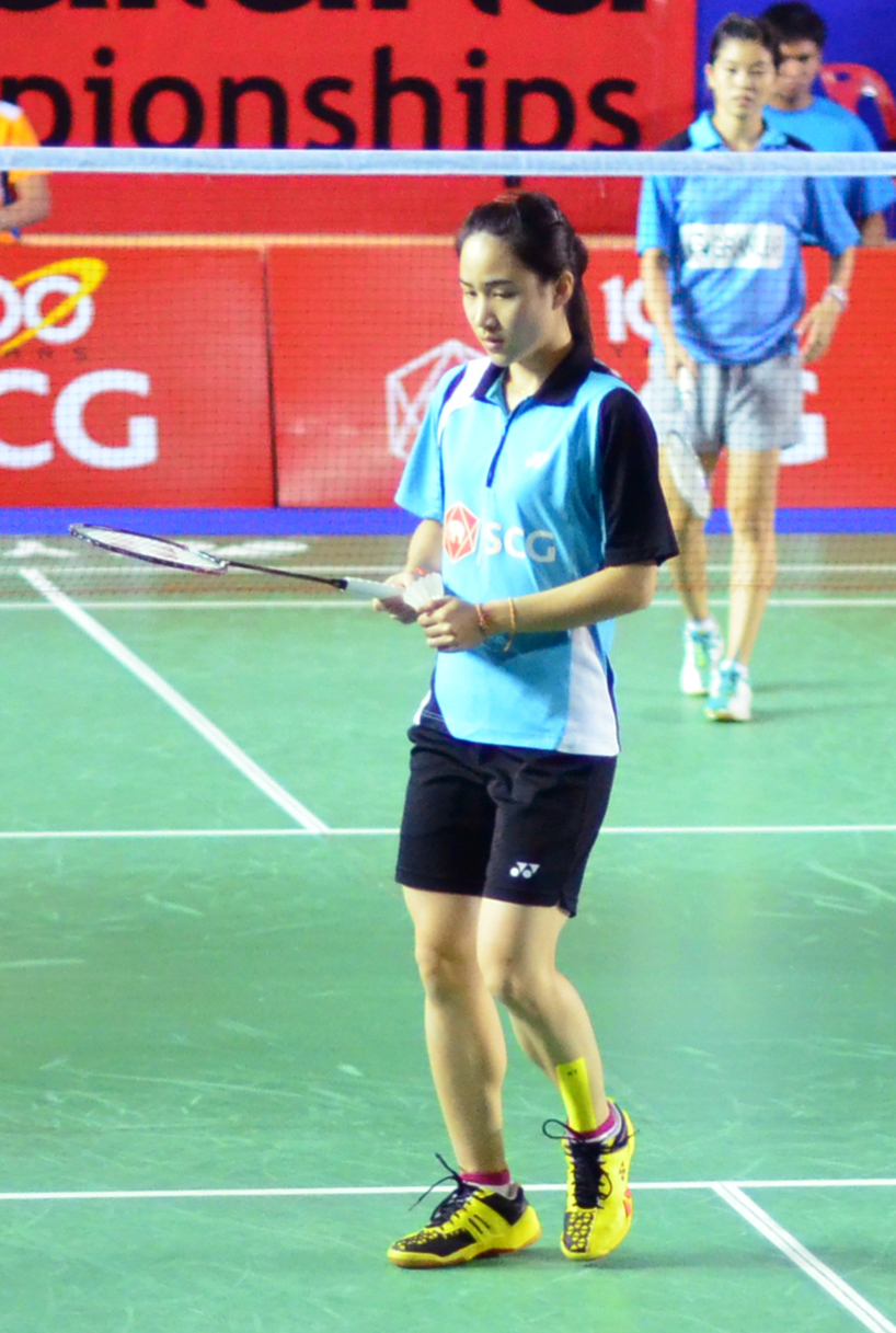 Nichaon Jindapon